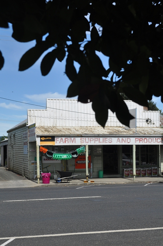 Yinnar Farm Supplies & Produce Store in Yinnar, Victoria, Australia.